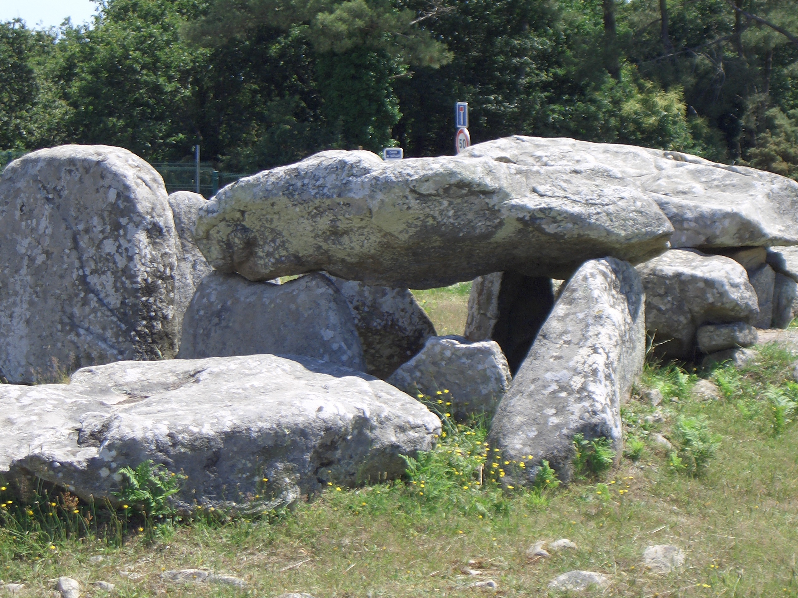 Carnac Stones, Carnac, Brittany, France